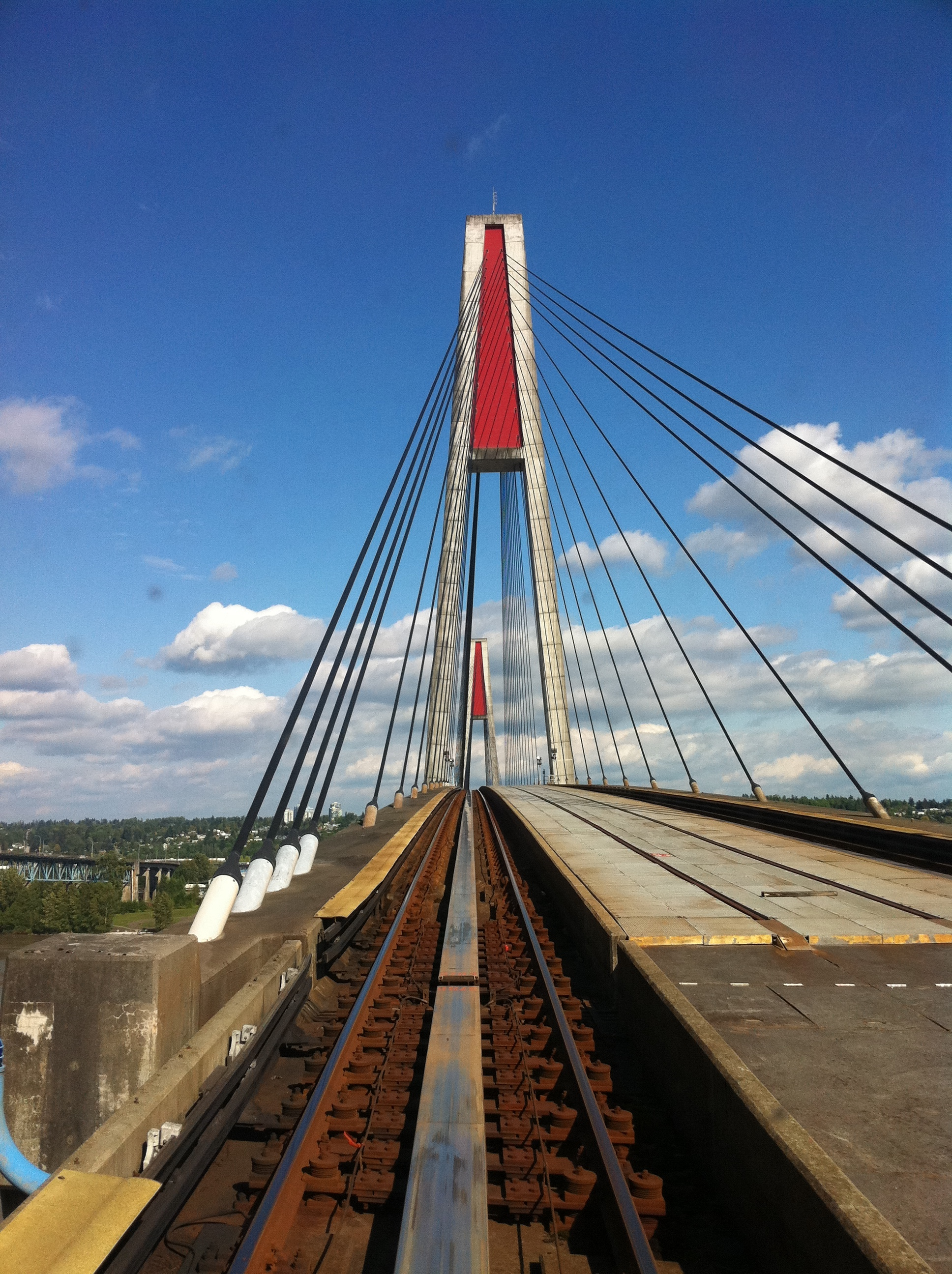 A view on the tracks on the Skybridge (TransLink) in Vancouver, British Columbia.